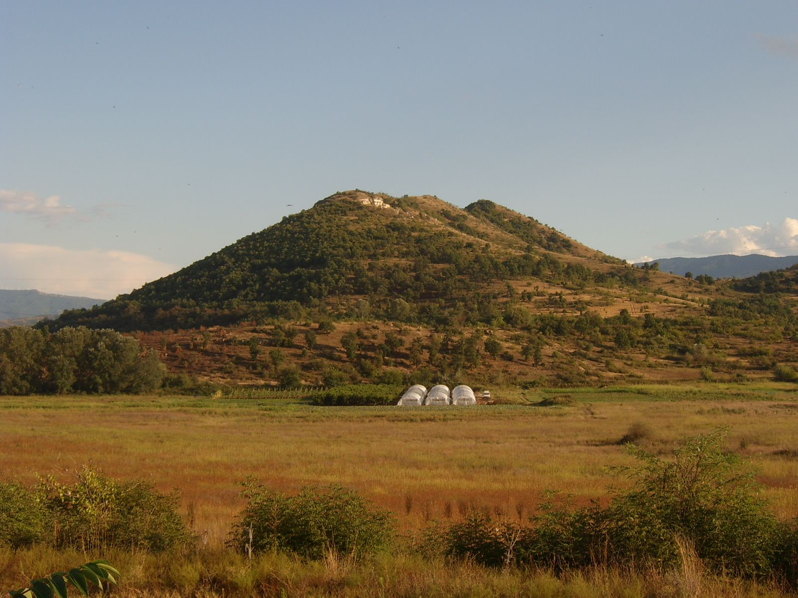 Kozhuh heights near Rupite, Bulgaria.